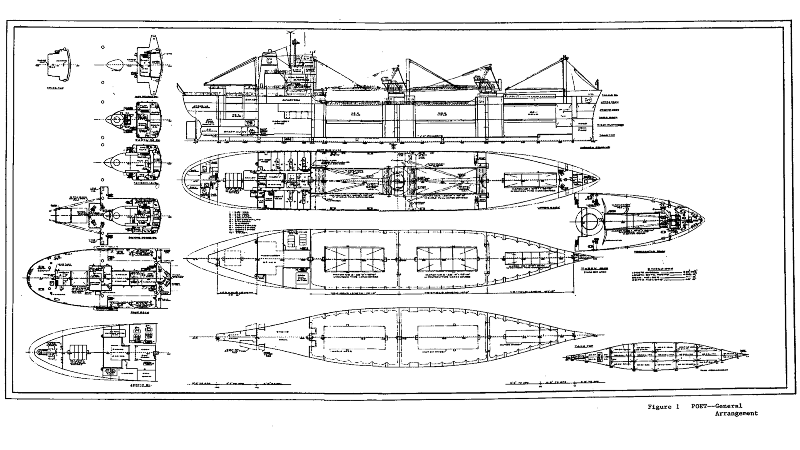 Schematics of the SS Poet. The ship had been originally been the U.S. Navy troop transport USS General Omar Bundy (AP-152), commissioned on 6 January 1945. She was sold in 1964 and disappeared on 24 October 1980.